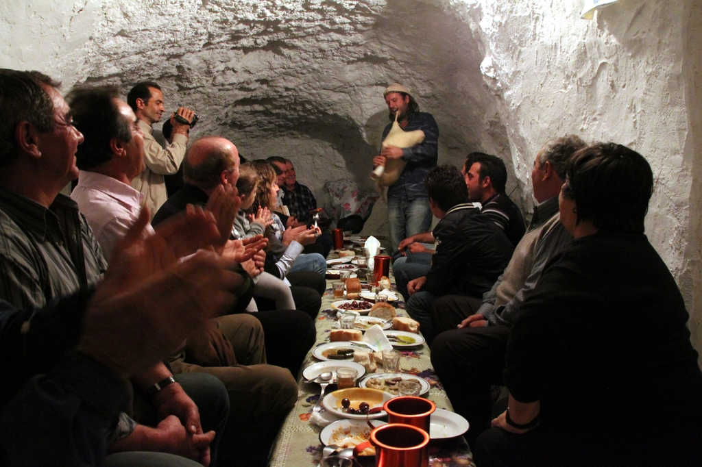 Yannis Pantazis playing the bagpipe and Nektarios Alefragis the tabor at "Taxiarchis" church feast. Akrotiri, Santorini, 07.11.2010. Taxiarchis Church Feast [Larger Image Exists]